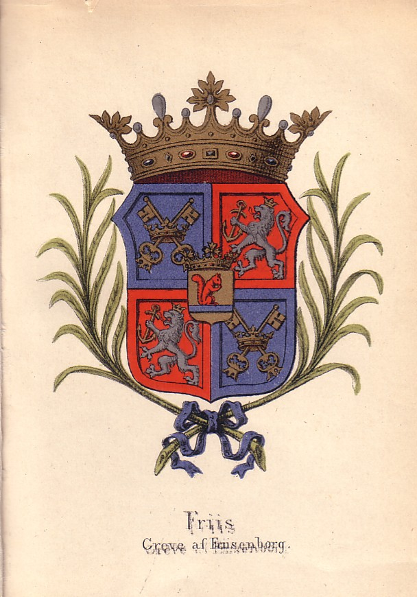 Coat of arms of the comital Friis family